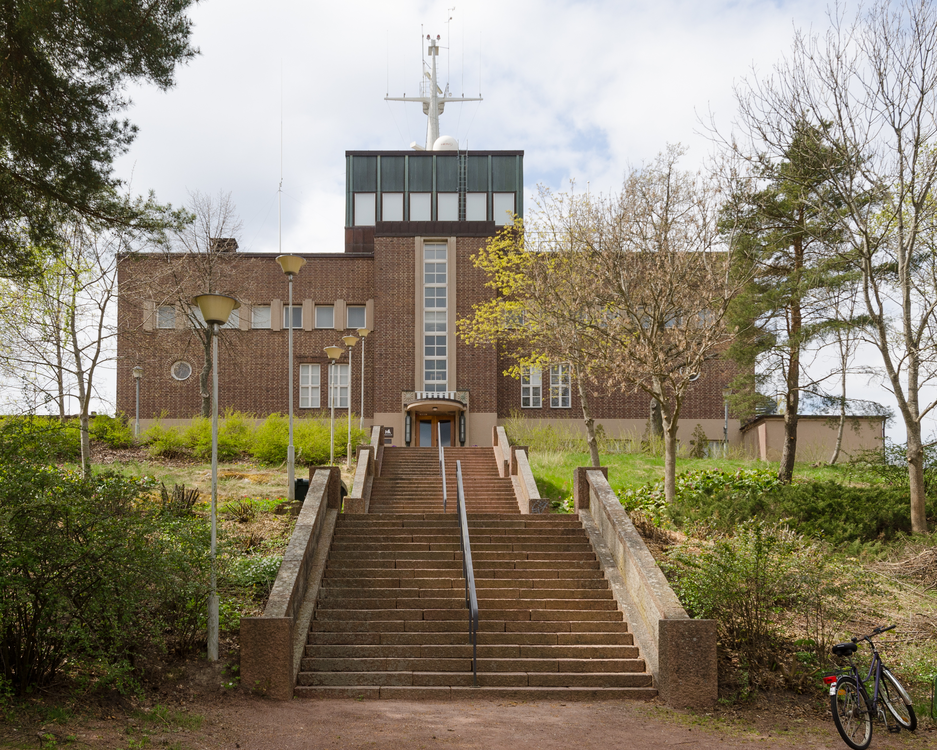 Navigationsskolan (school of navigation) in Mariehamn, Åland (Finland). Built 1938, architect Lars Sonck. Today part of Högskolan på Åland (Åland University of Applied Sciences).